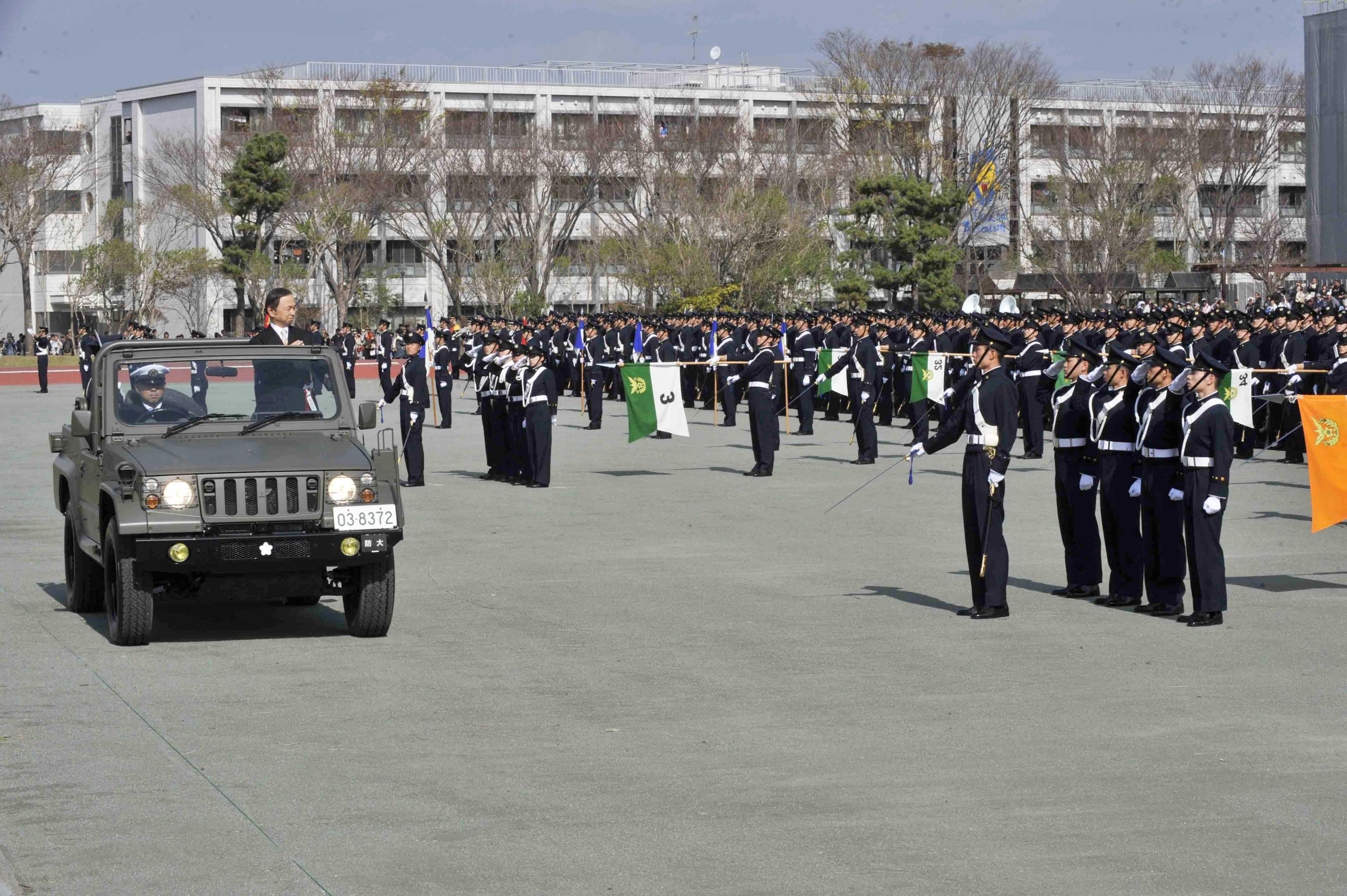 Ryōsei Kokubun, President of the National Defense Academy, made a round of inspection at the National Defense Academy in Yokosuka City, Kanagawa Prefecture on November, 2018.